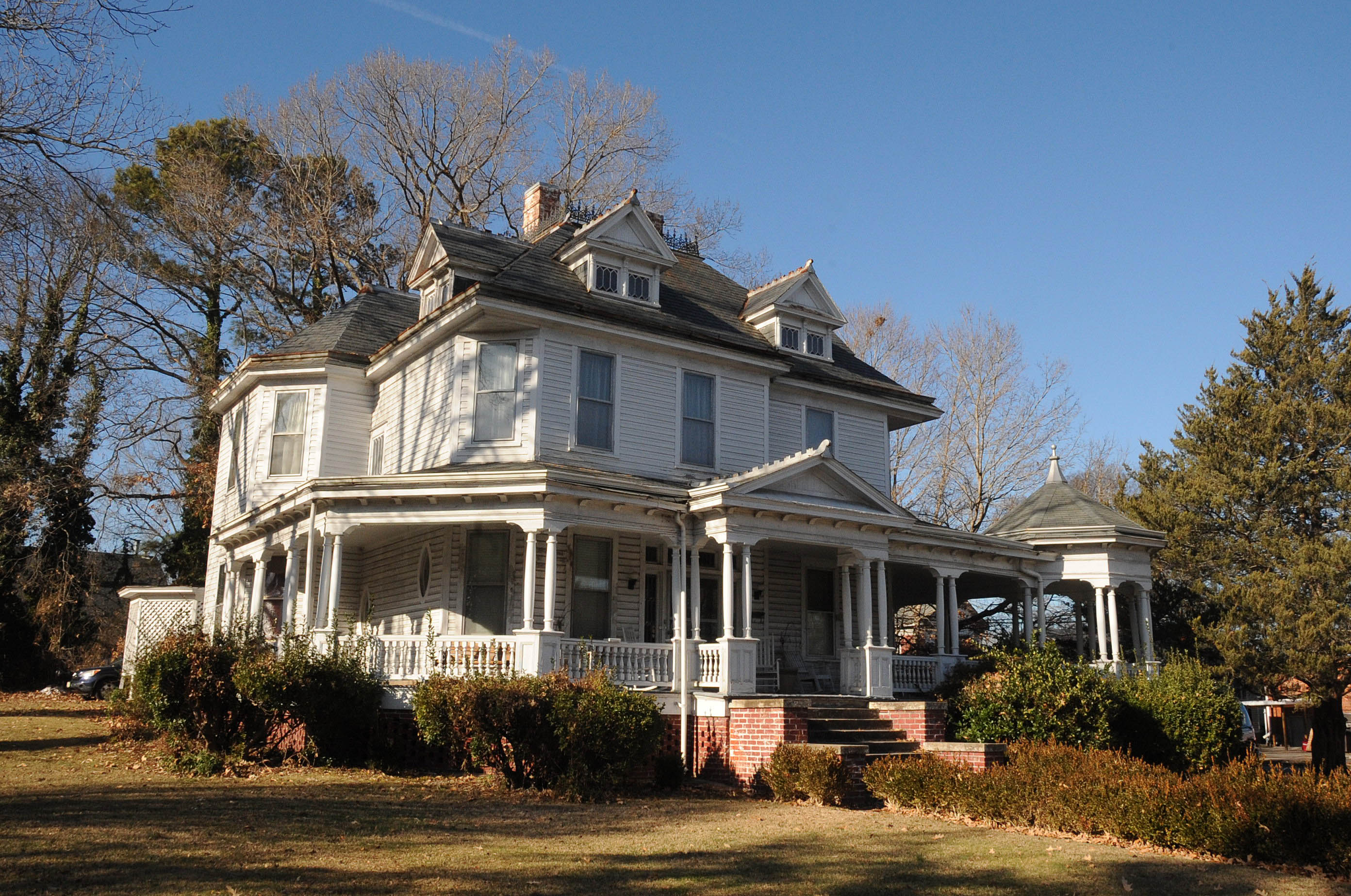 SMITH DICKENS HOUSE, 1901-1902 IS THE LARGEST QUEEN ANNE HOUSE IN THE WELDON HISTORIC DISTRICT, WELDON NC